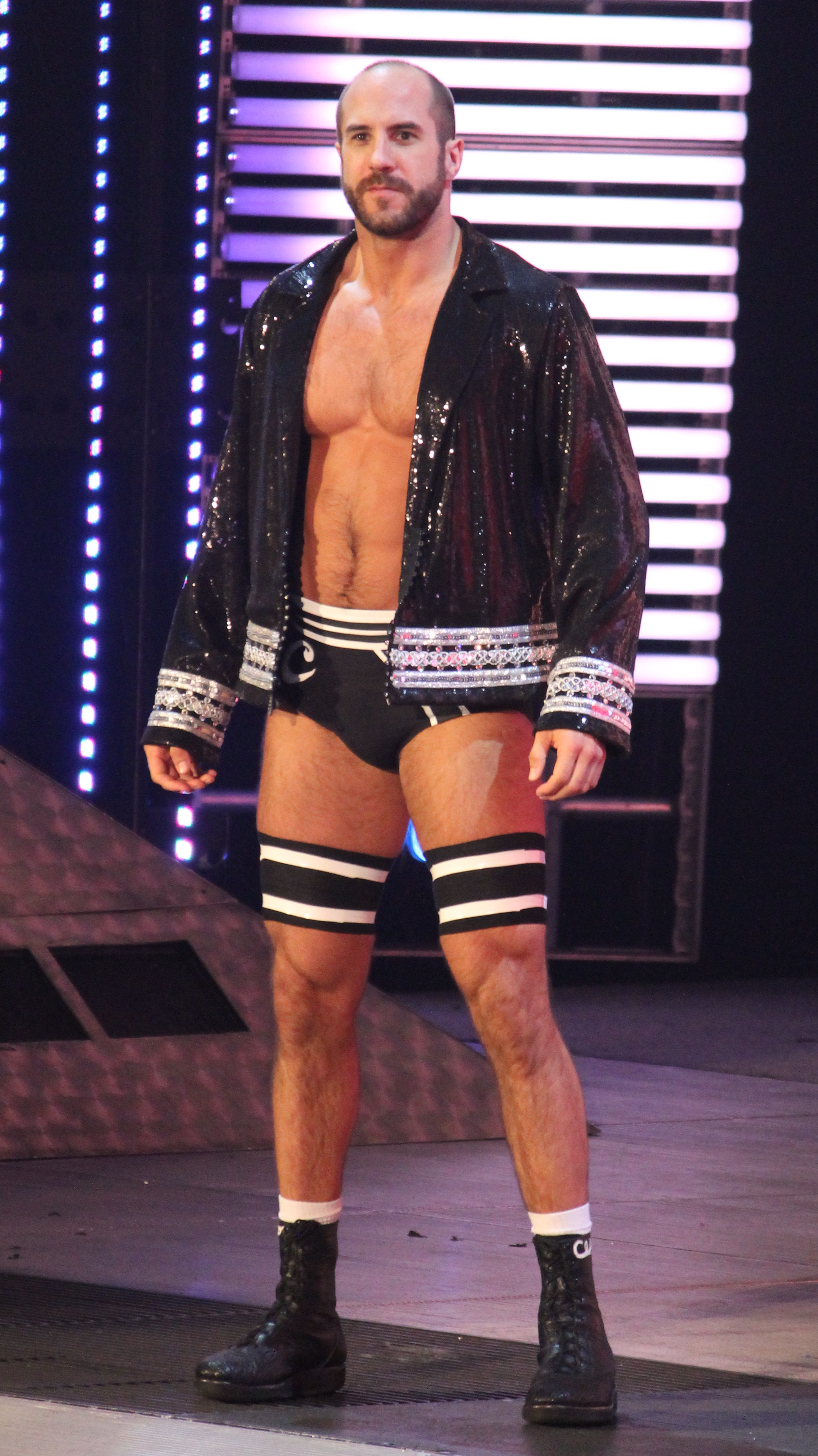 Cesaro at the post-WrestleMania Raw on 7 April 2014 in New Orleans, Louisiana.